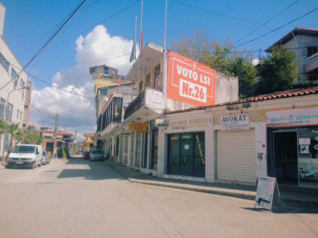 Lagja Kavajë